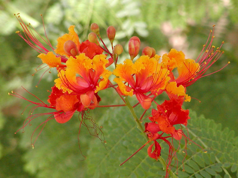 Caesalpinia pulcherrima — Mexican bird of paradise, Dwarf poinciana (introduced species). At The Gardens at the Las Vegas Springs Preserve (formerly the Desert Demonstration Garden), the desert botanical garden in the Las Vegas Springs Preserve, Las Vegas, Nevada.